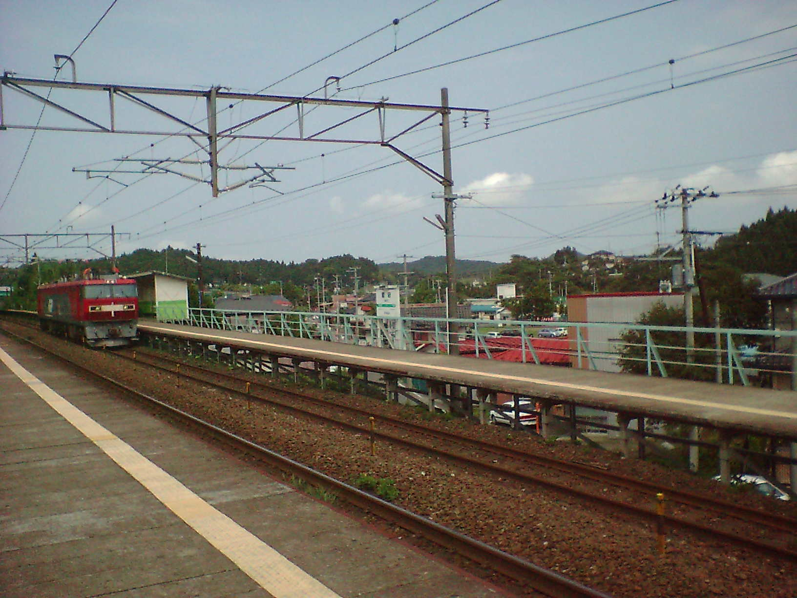 Atago Station in Matsushima, Miyagi, Japan.